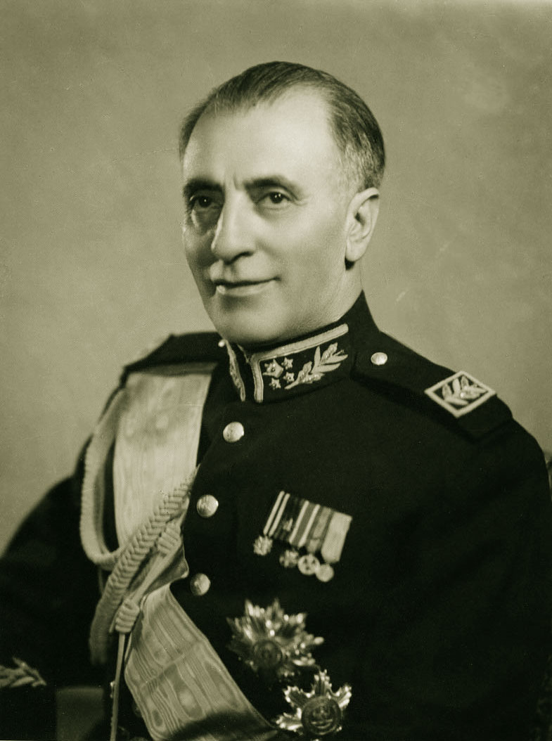 Fazlollah Zahedi, Iranian general and politician, Iranian media